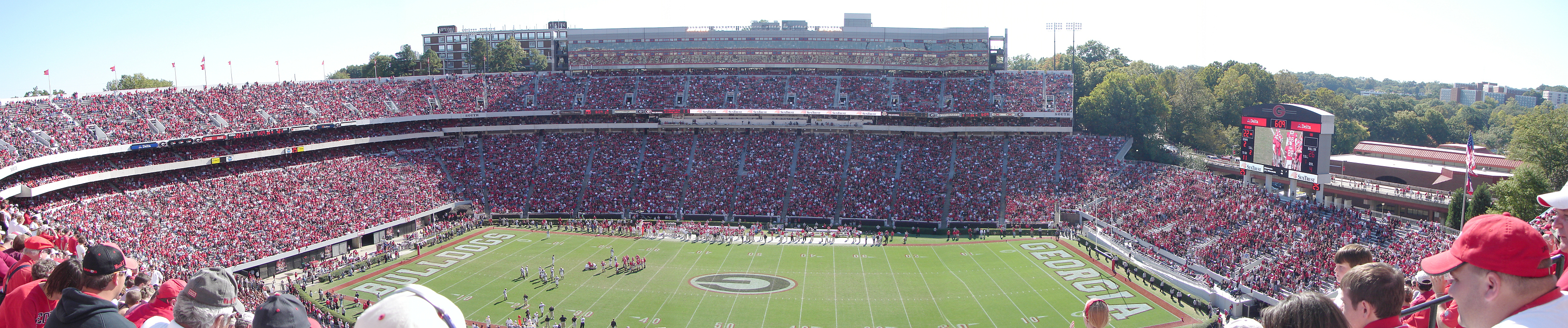 Panoramic view of Sanford Stadium in Athens, Georgia, from the Upper North Deck